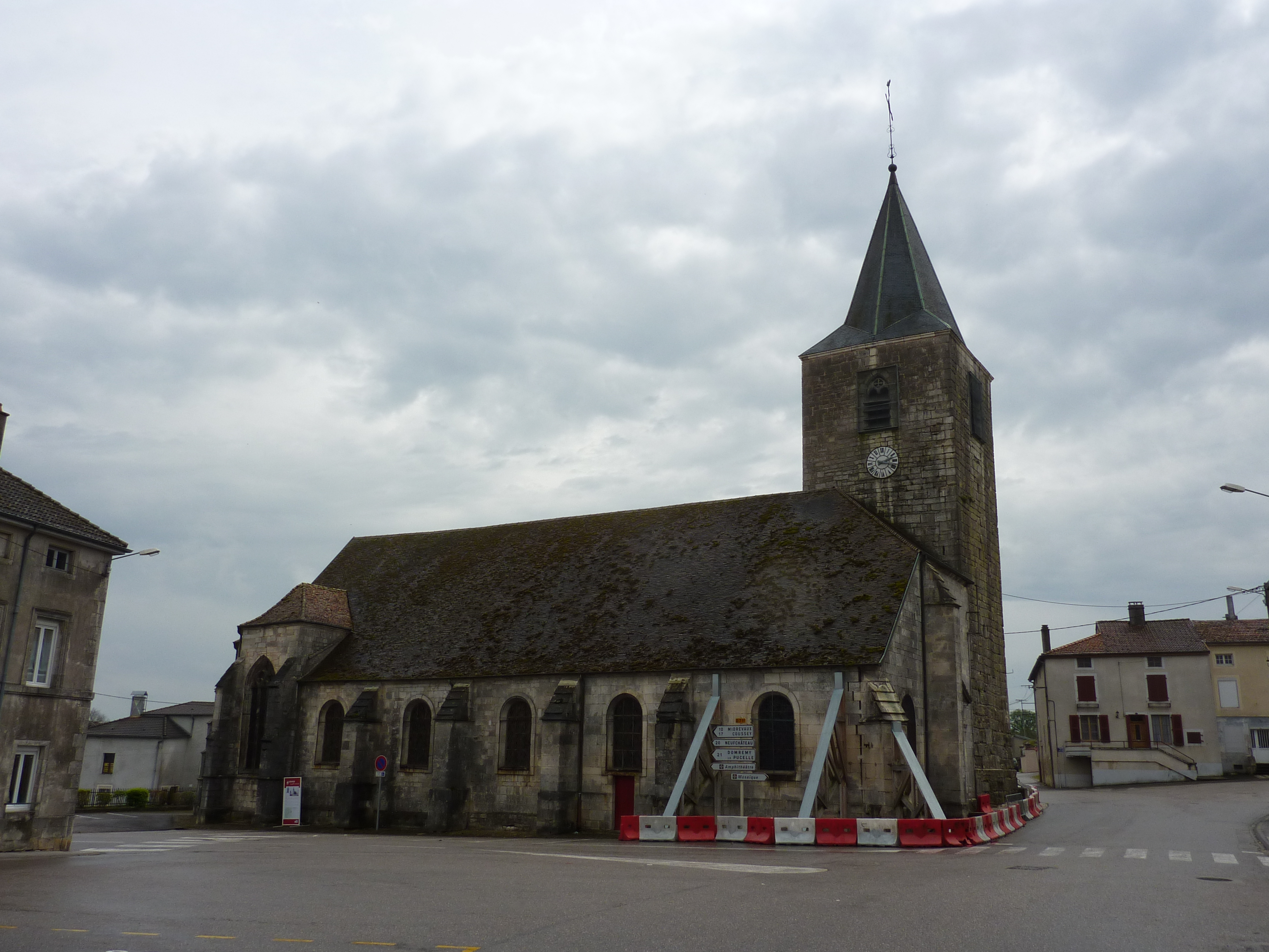 Église Sainte-Libaire,Grand, Vosges, France